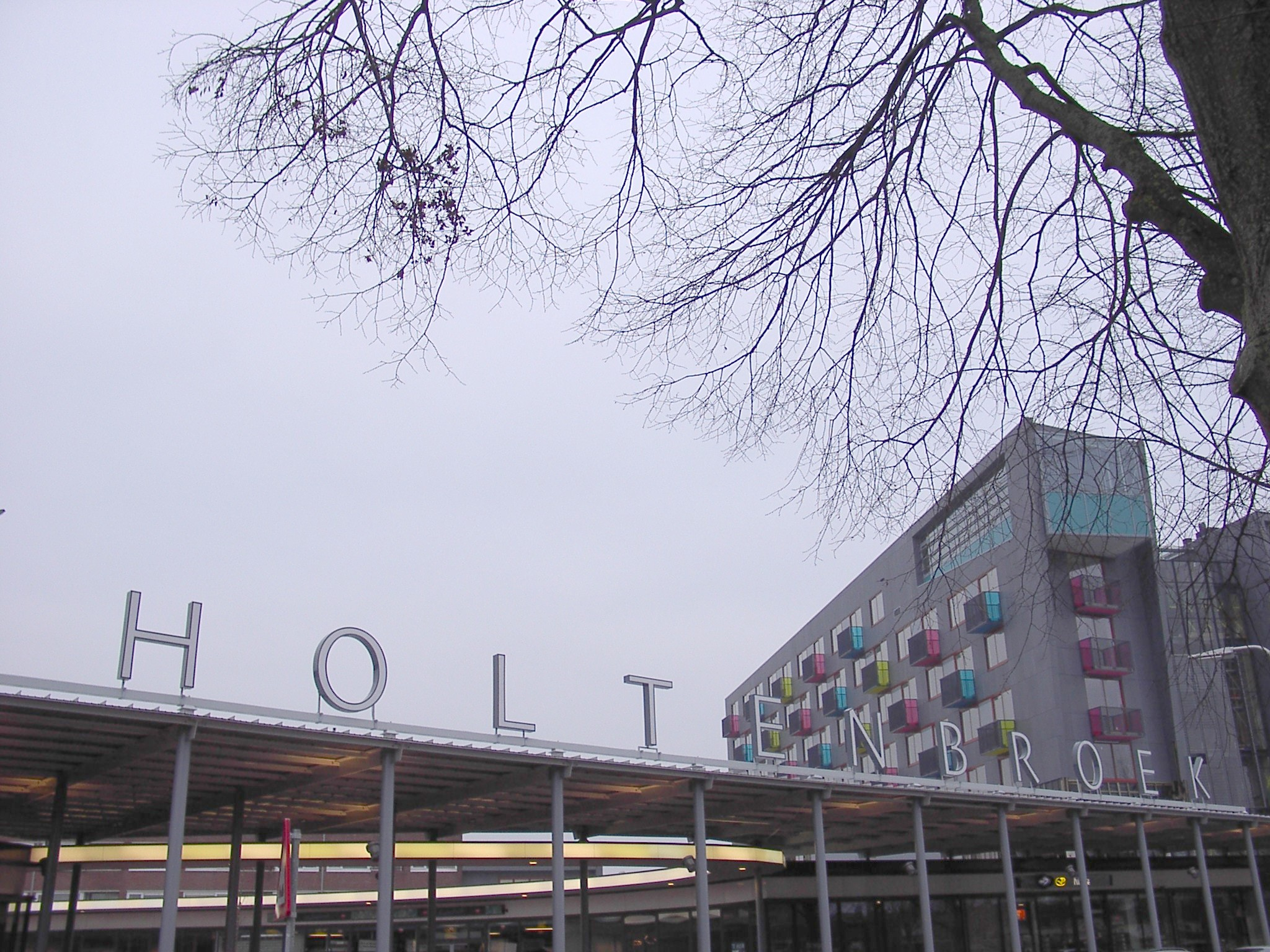 The shopping centre in Holtenbroek, Zwolle.